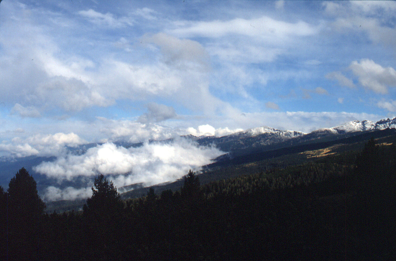 Rila Mountains (near Sedemte Ezera), Bulgaria. Late September 1998